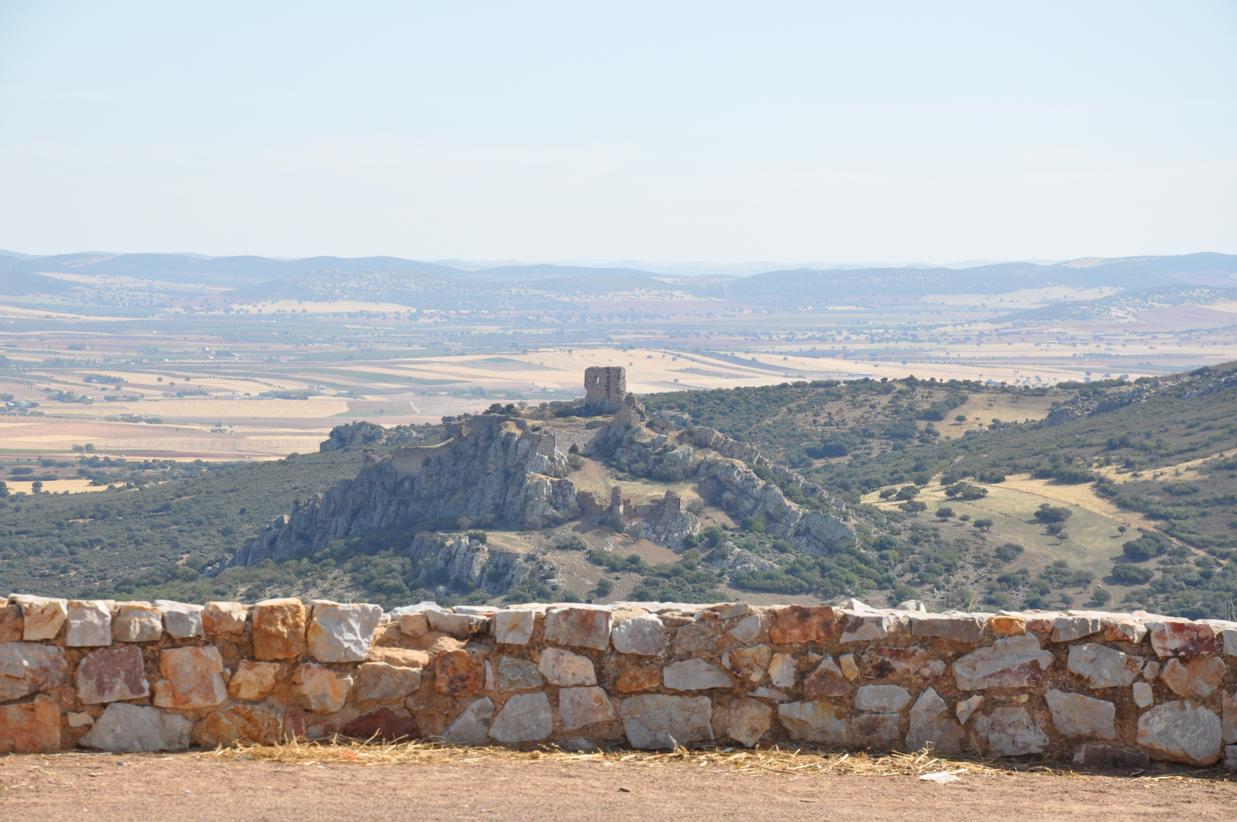 Salvatierra Castle seen from the fortress of Calatrava la Nueva, Ciudad Real, Spain